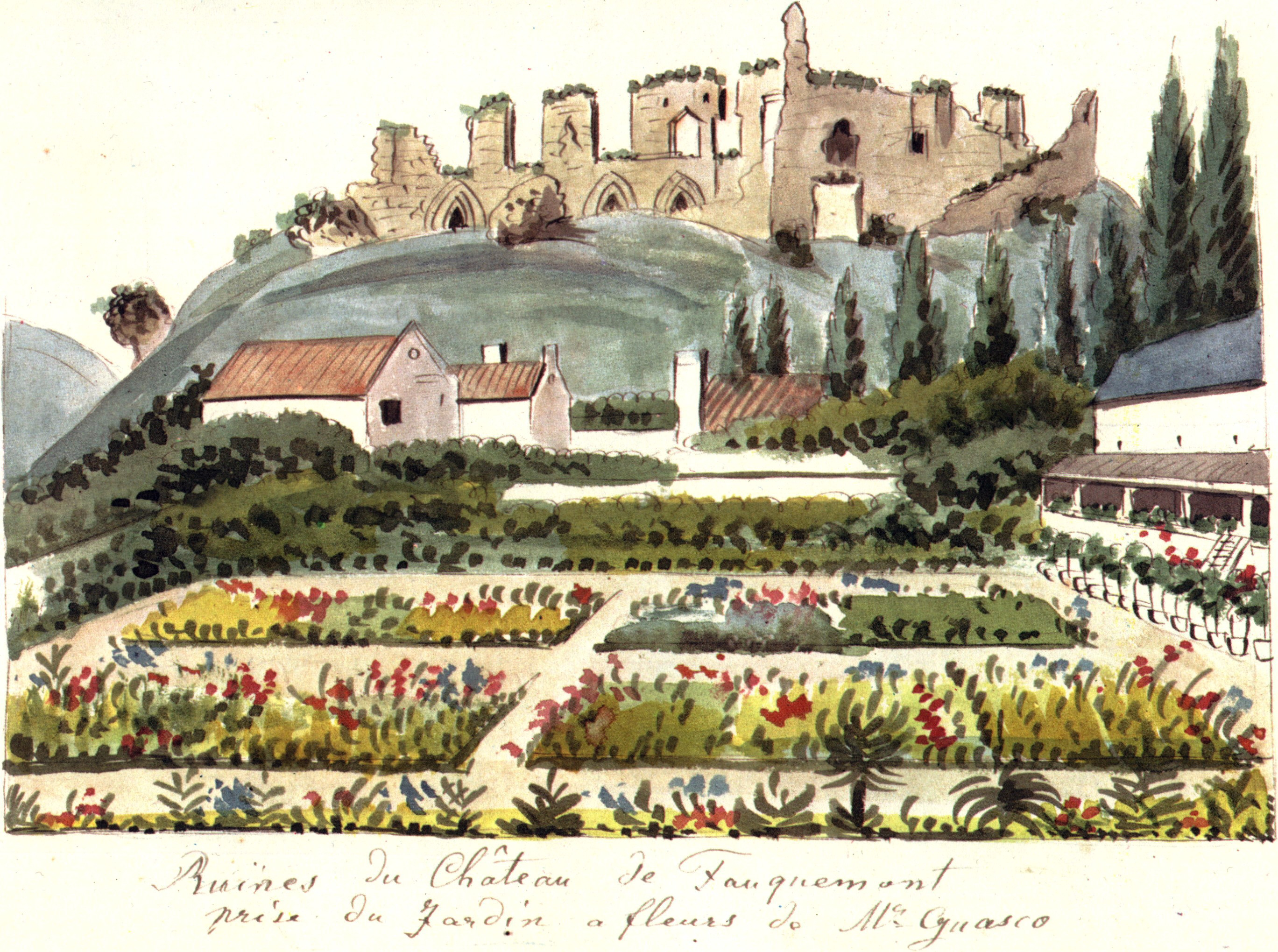 View of the castle ruin in Valkenburg, Limburg, the Netherlands. Drawing by Philippus van Gulpen (c 1840-60)